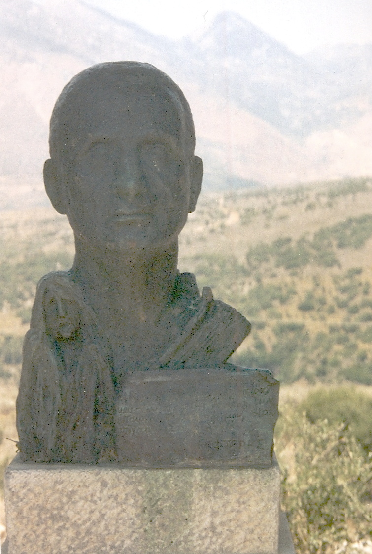 The bust of George Fteris' head in his monument in Mani, Greece.